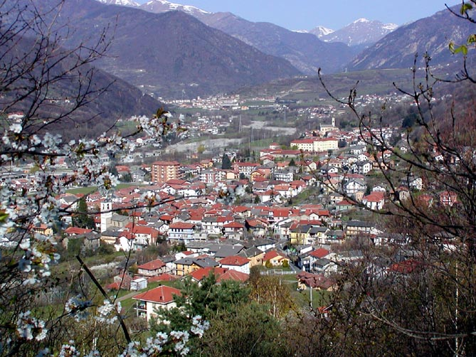 General view of Pinasca (province of Torino, Italy)